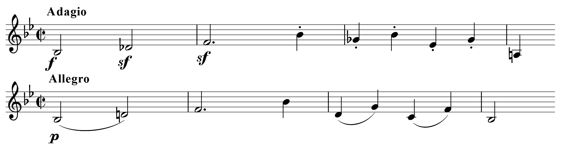 Measures 1 to 4, and measures 16 to 19, of the first violin part in the first movement of Haydn's Symphony No. 98